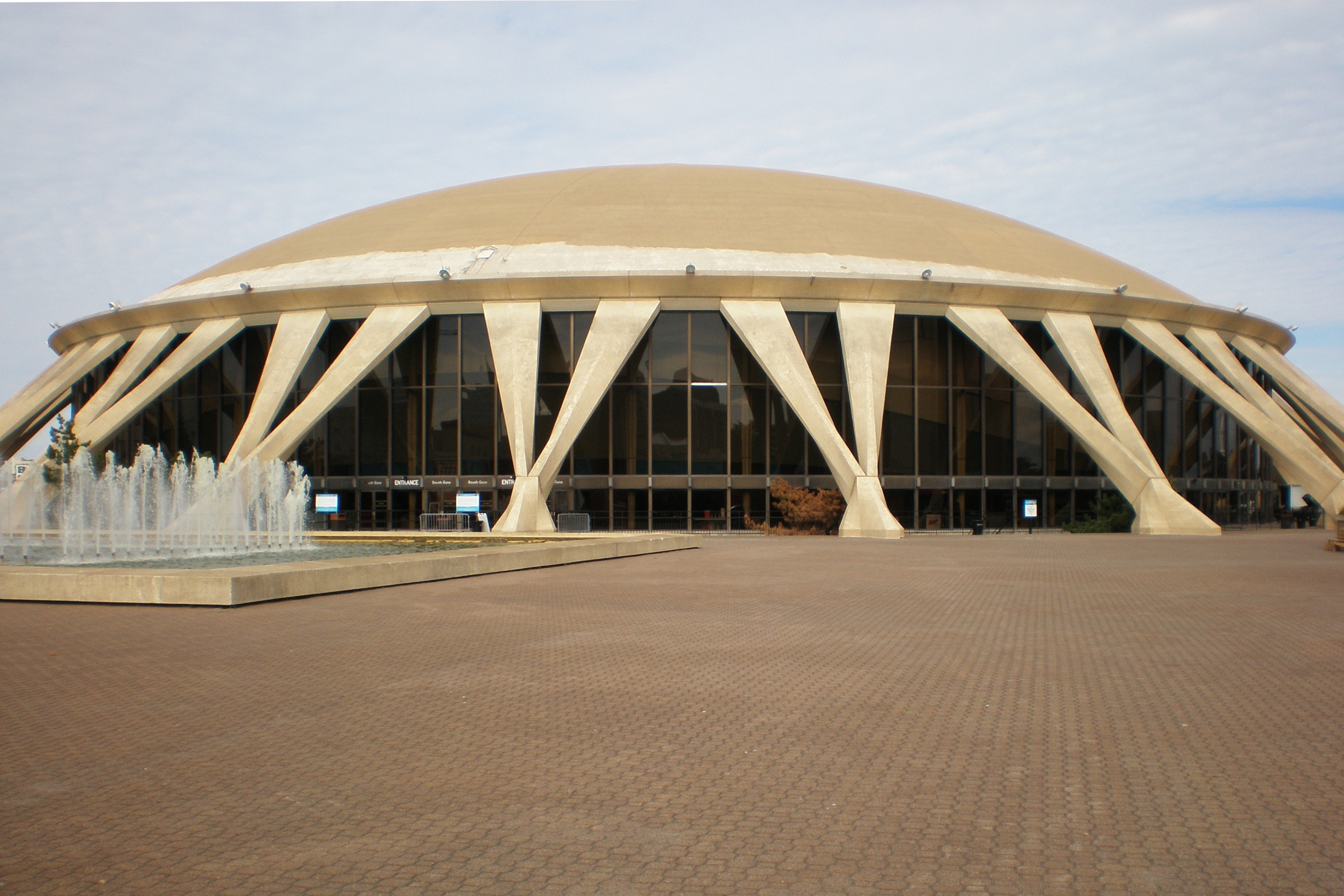 Pier Luigi Nervi’s Norfolk Scope Arena in Norfolk, VA, USA. Built between 1968 and 1971, the design of the arena recalls closely Nervi’s Palazzetto dello Sport in Rome, built for the 17th Olympics which took place in 1960.